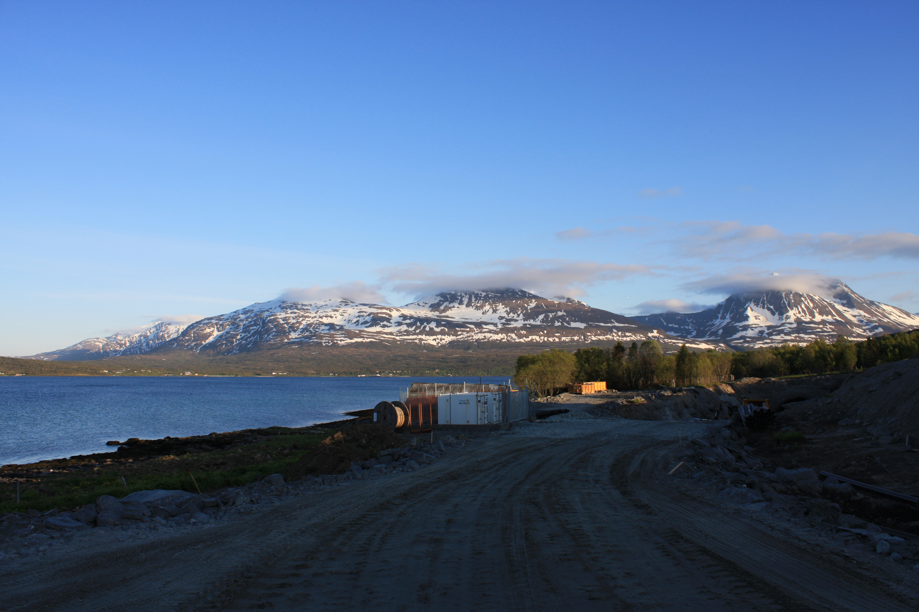 The construction site of the undersea tunnel (Ryaforbindelsen) with the peninsula Malangshalvøya in the background.